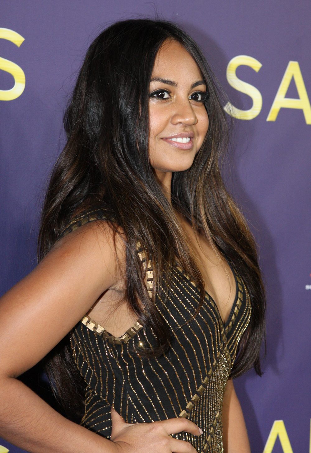 Jessica Mauboy at the The Saphires Hometown Gala Premiere - State Theatre Sydney 2012.